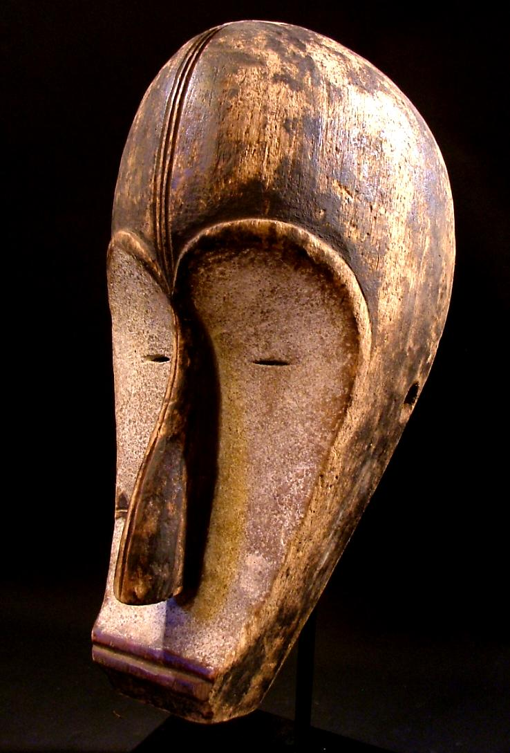 A Fang Tribal art mask.